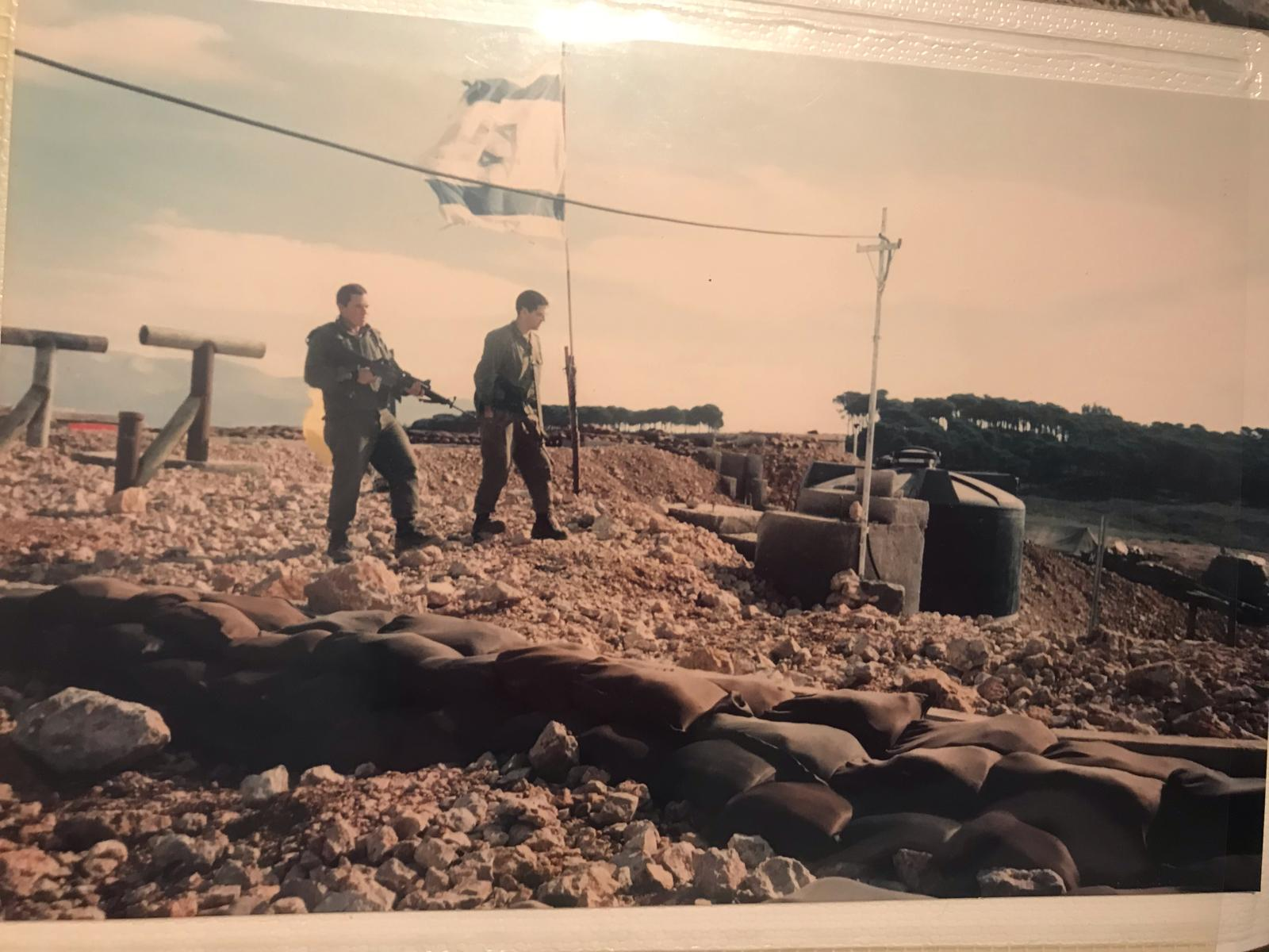 מוצב שני ברצועת הביטחון בלבנון מבט לכיוון דרום מהסוללה , חיילים הולכים על הביצור שמעל הצוללת (לפי פתחי האוורור שמאחוריהם) התמונה צולמה בשנת 1997